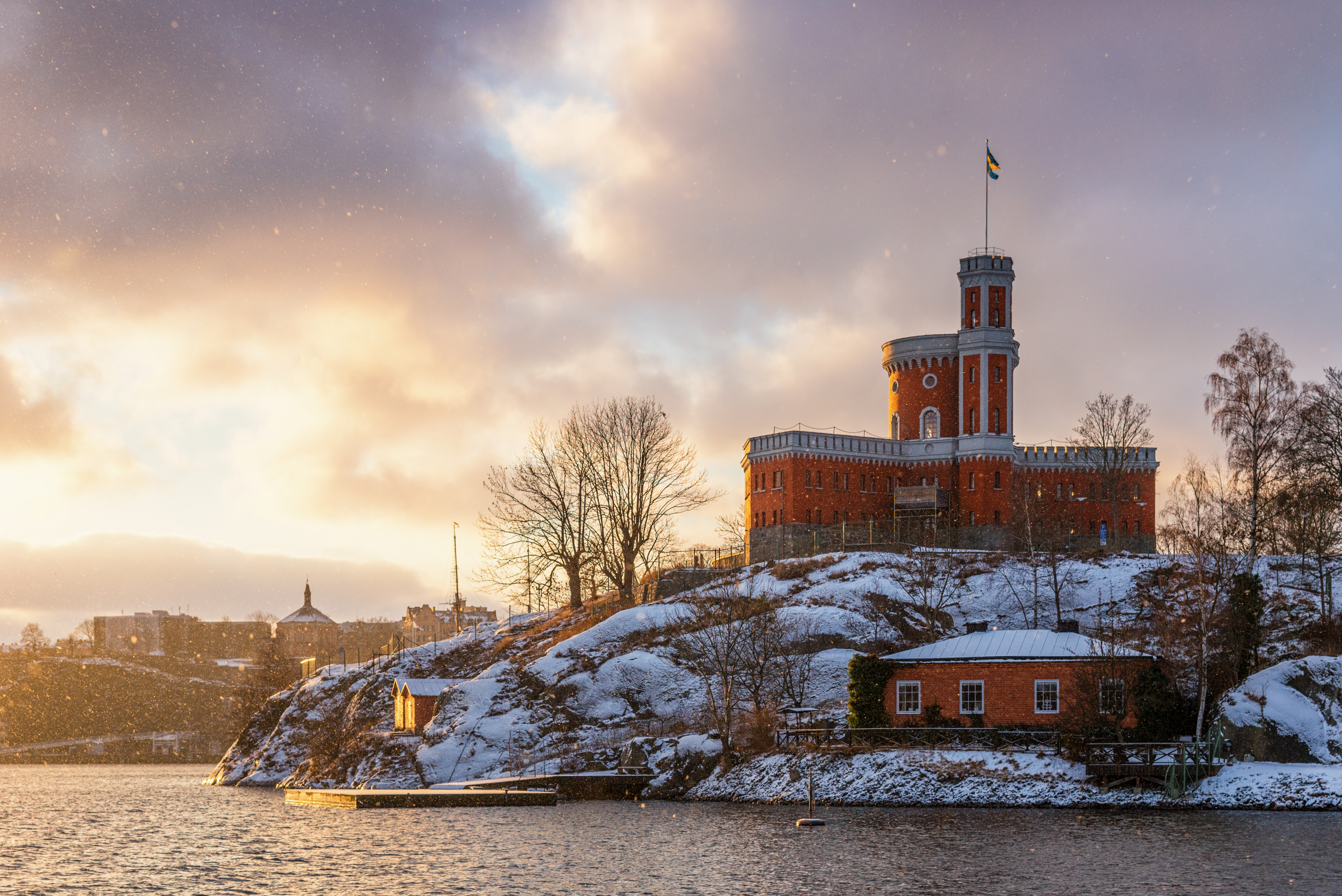 Kastellet citadel on Kastellholmen, Stockholm. The first fortification on the location was built in 1667, but exploded in 1845. The current building was erected 1846–1848 and has been a listed building in Sweden since 1935.